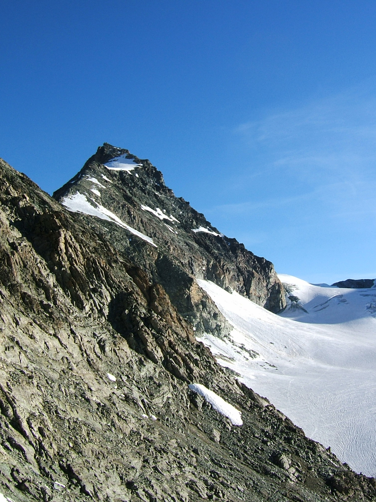 Pointe de Zinal from South, near Oberer Blausatz